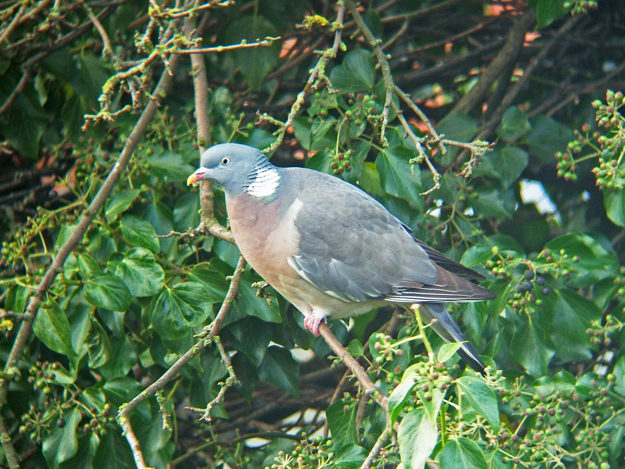 Woodpigeon Columba palumbus feeding on Ivy Hedera helix berries, Newcastle, Northumberland, UK